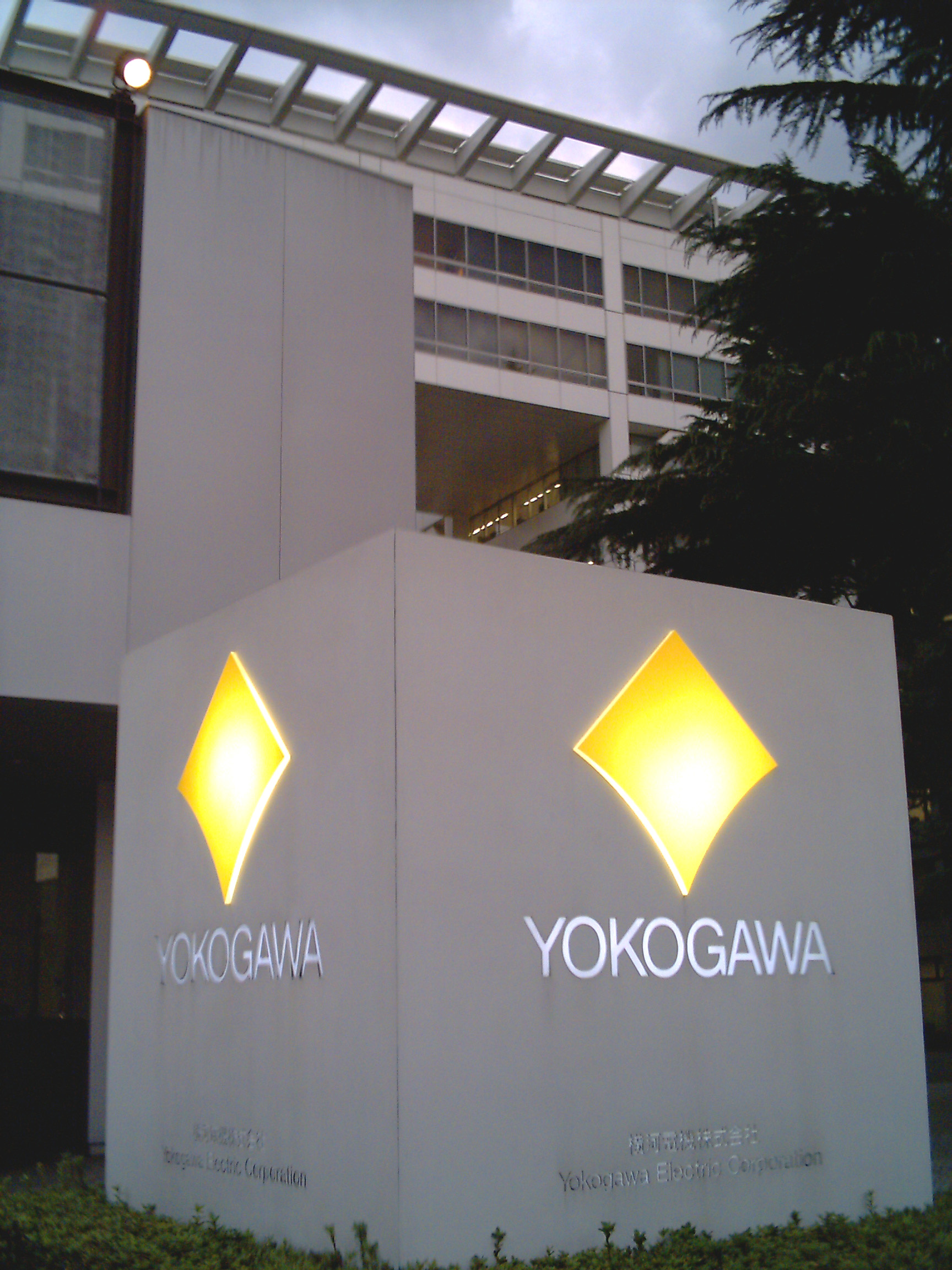 Yokogawa_office_musashino City japan photography day, 2006.9.29. photography person kici